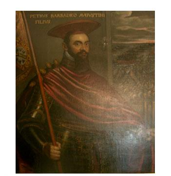 Portrait of Agostino Barbarigo